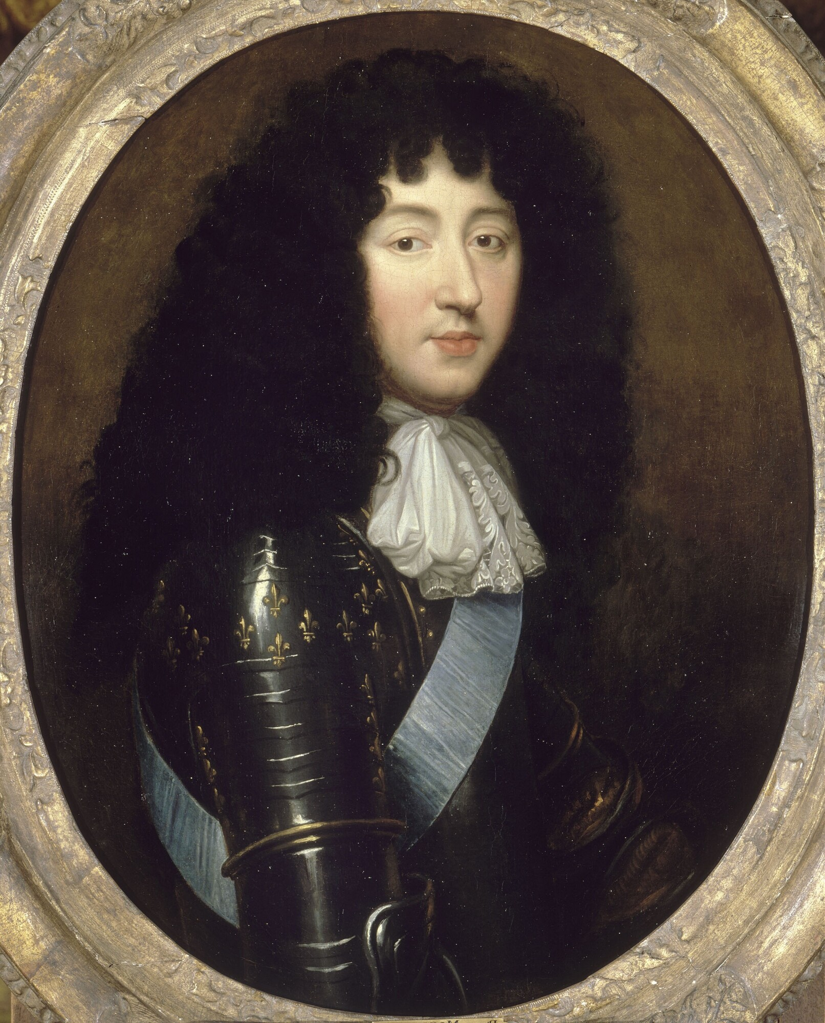 Portrait wearing an armor with fleur-de-lys